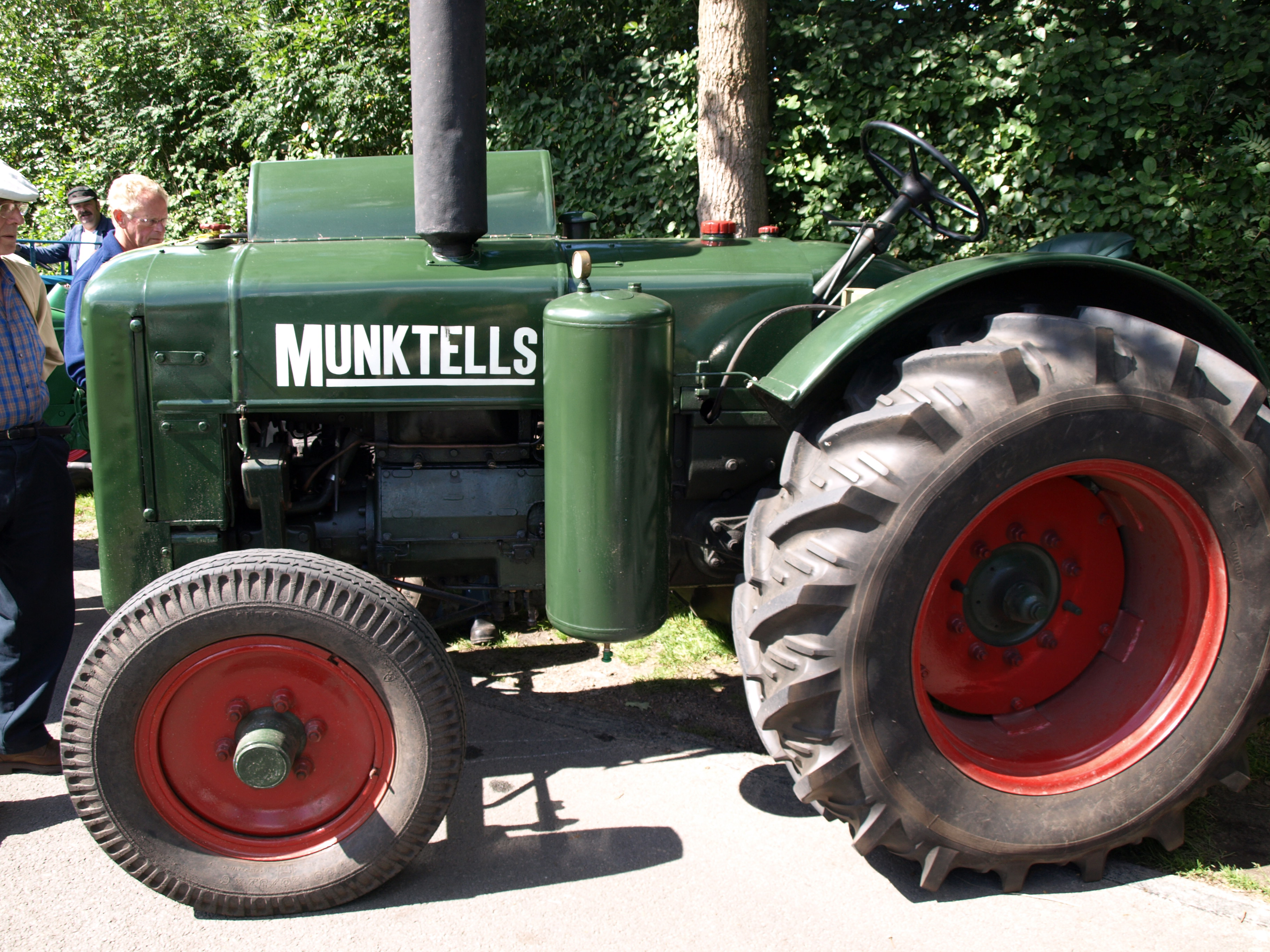 Bolinder Munktell BM 21 tractor, photographed at a show in the Dutch province Drenthe.